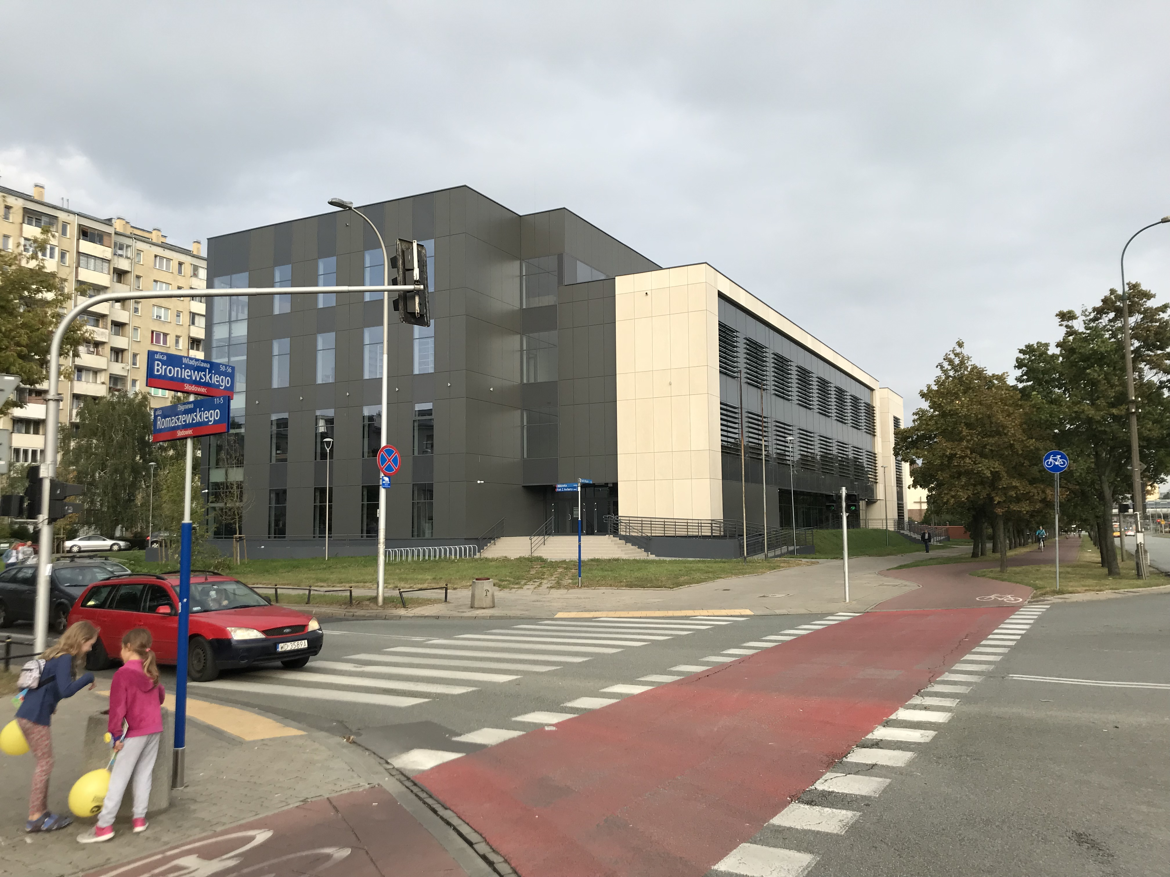 Building of Christian Theological Academy in Warsaw in September 2018